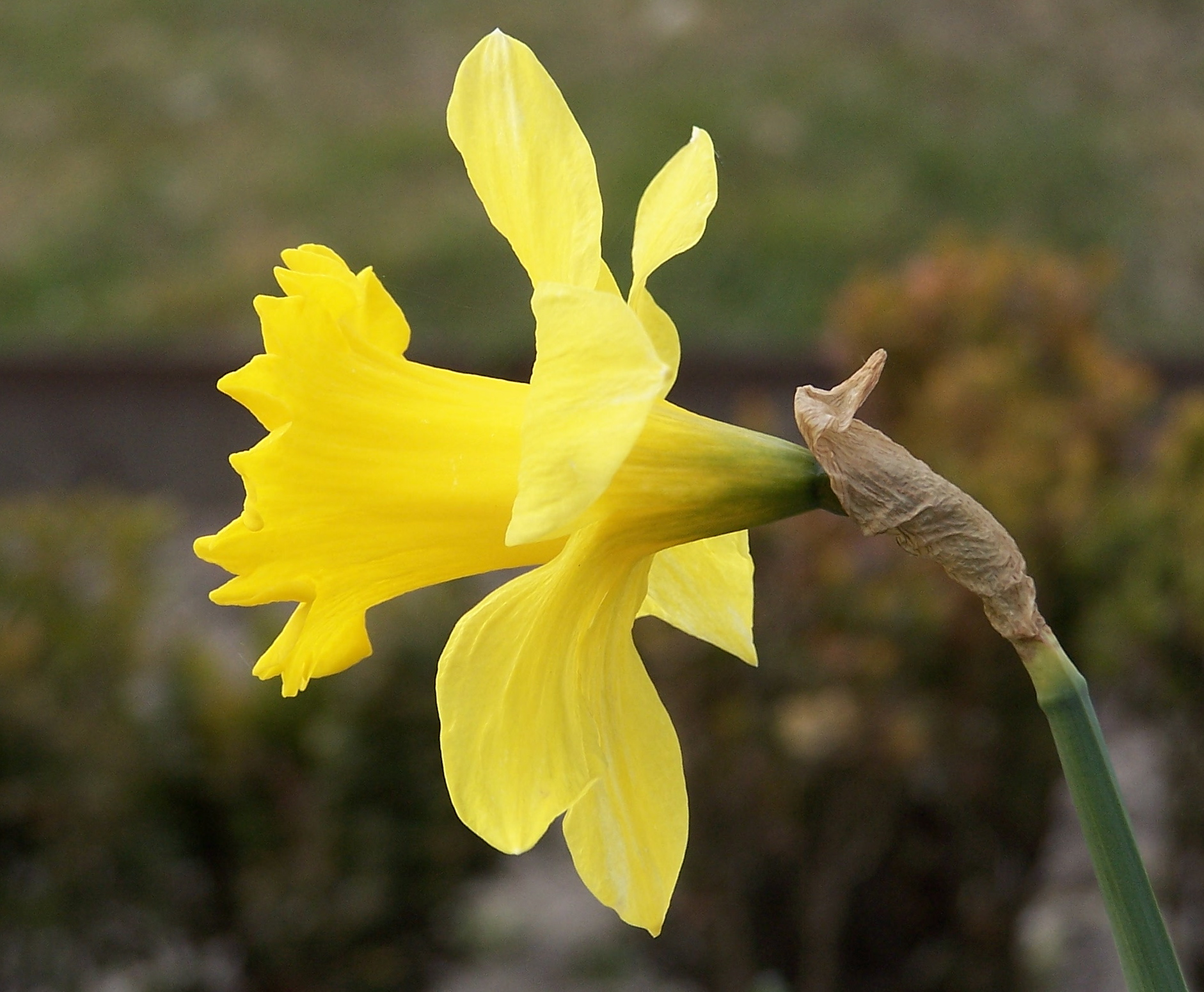 Flower of a Narcissus (side) – (not typical of Narcissus pseudonarcissus, probably a cultivar)